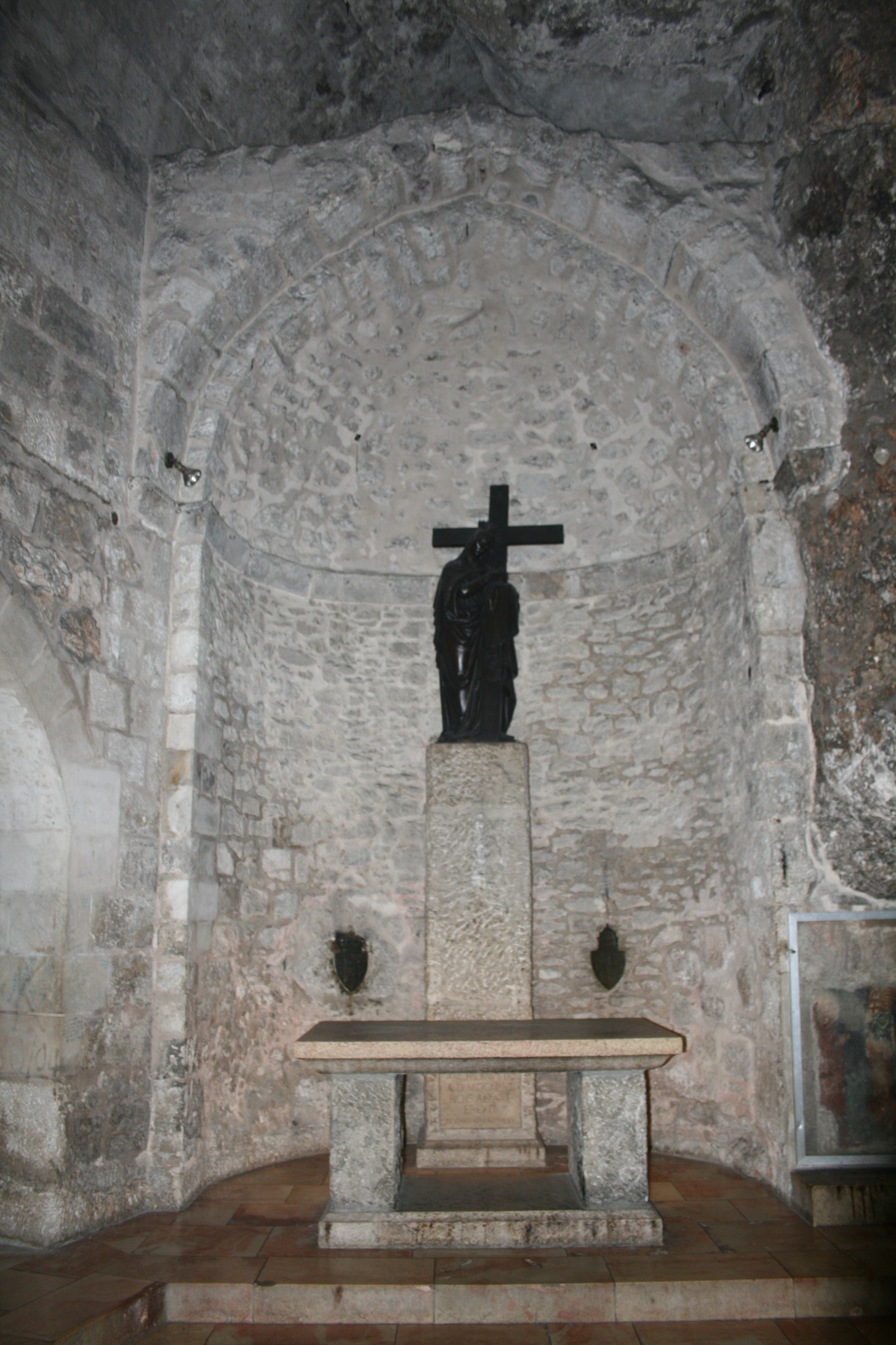 Grotto of the Holy Cross, Church of the Holy Sepulchre, Jerusalem